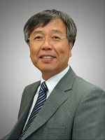 2011년 12월 06일 유룡교수님으로부터 한국과학기술단체총연합회(KOFST)가 사진을 사용할 수 있도록 허가받음.